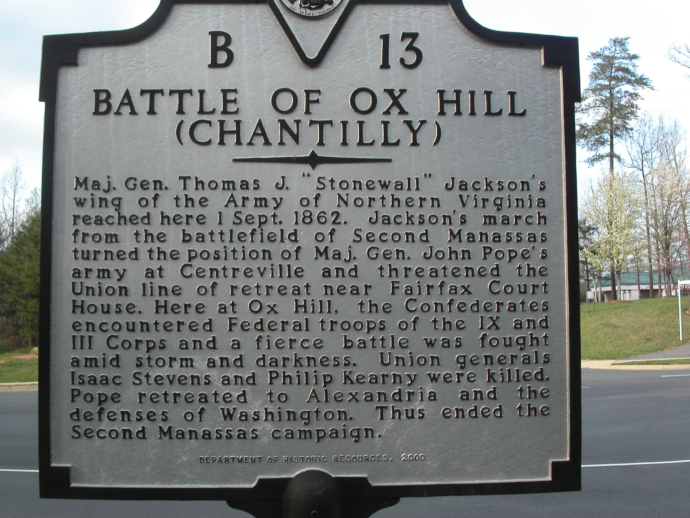 Battle of Ox Hill marker. Photo of the Virginia Dept of Historic Resources marker B13. I took this photo on April 8, 2007.